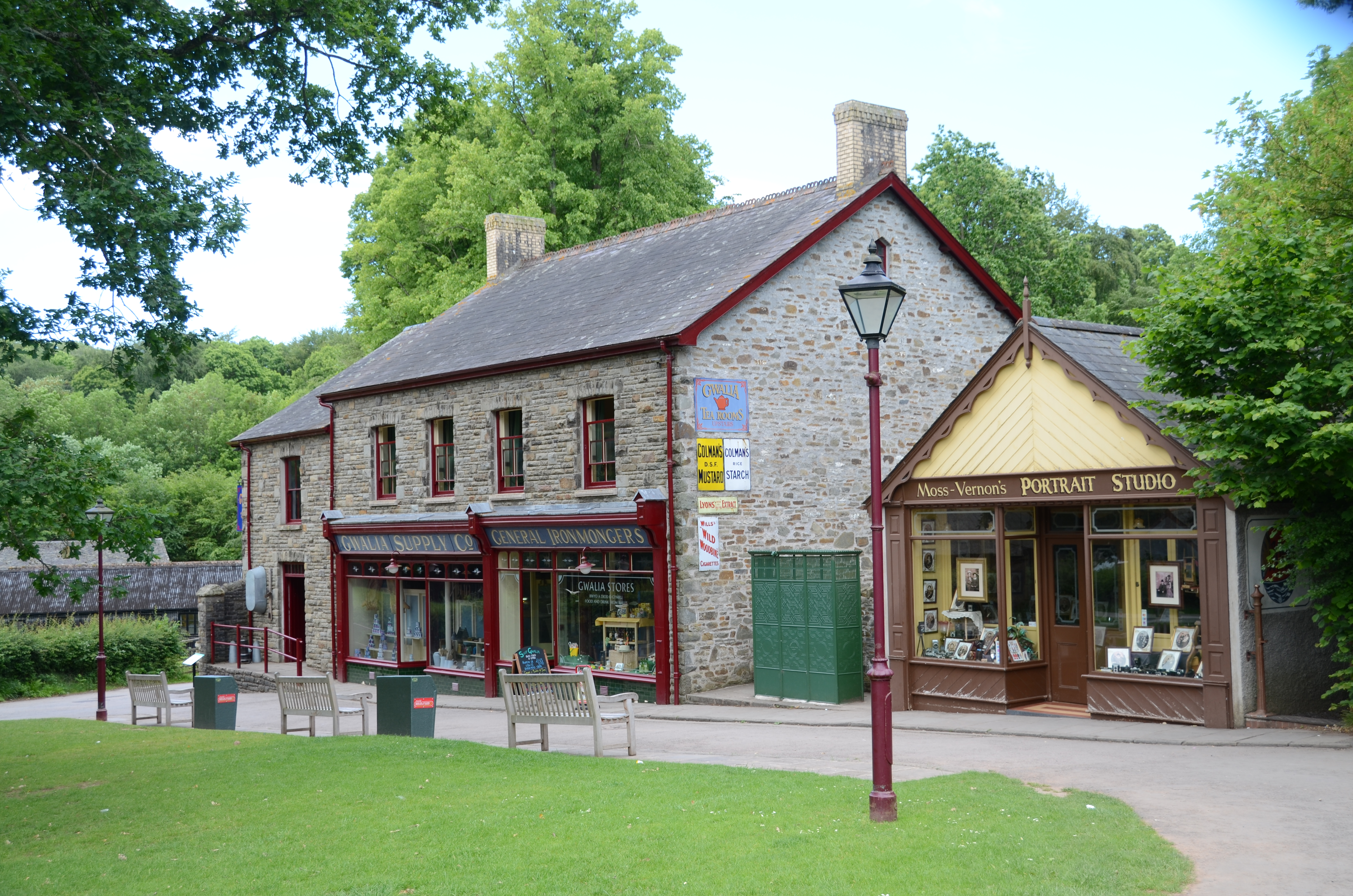 Gwalia Stores and Moss-Vernon's Portrait Studio, St Fagans National History Museum, Cardiff, Wales